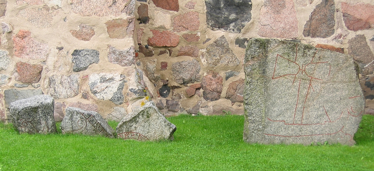 Runestones U 980 and U 979 against the wall of Gamla Uppsala church.